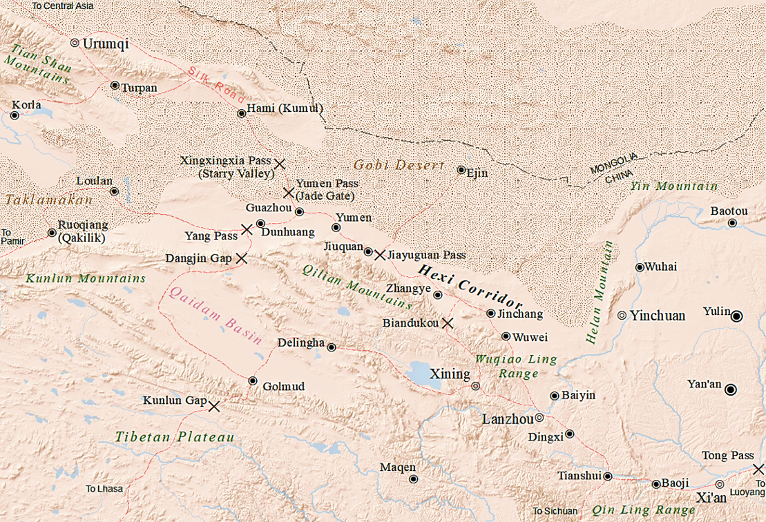 Map of the Hexi Corridor